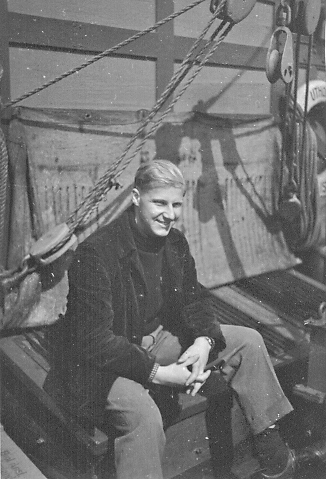 Dr. Walter Fischer on board a fishery research vessel (about 1955)